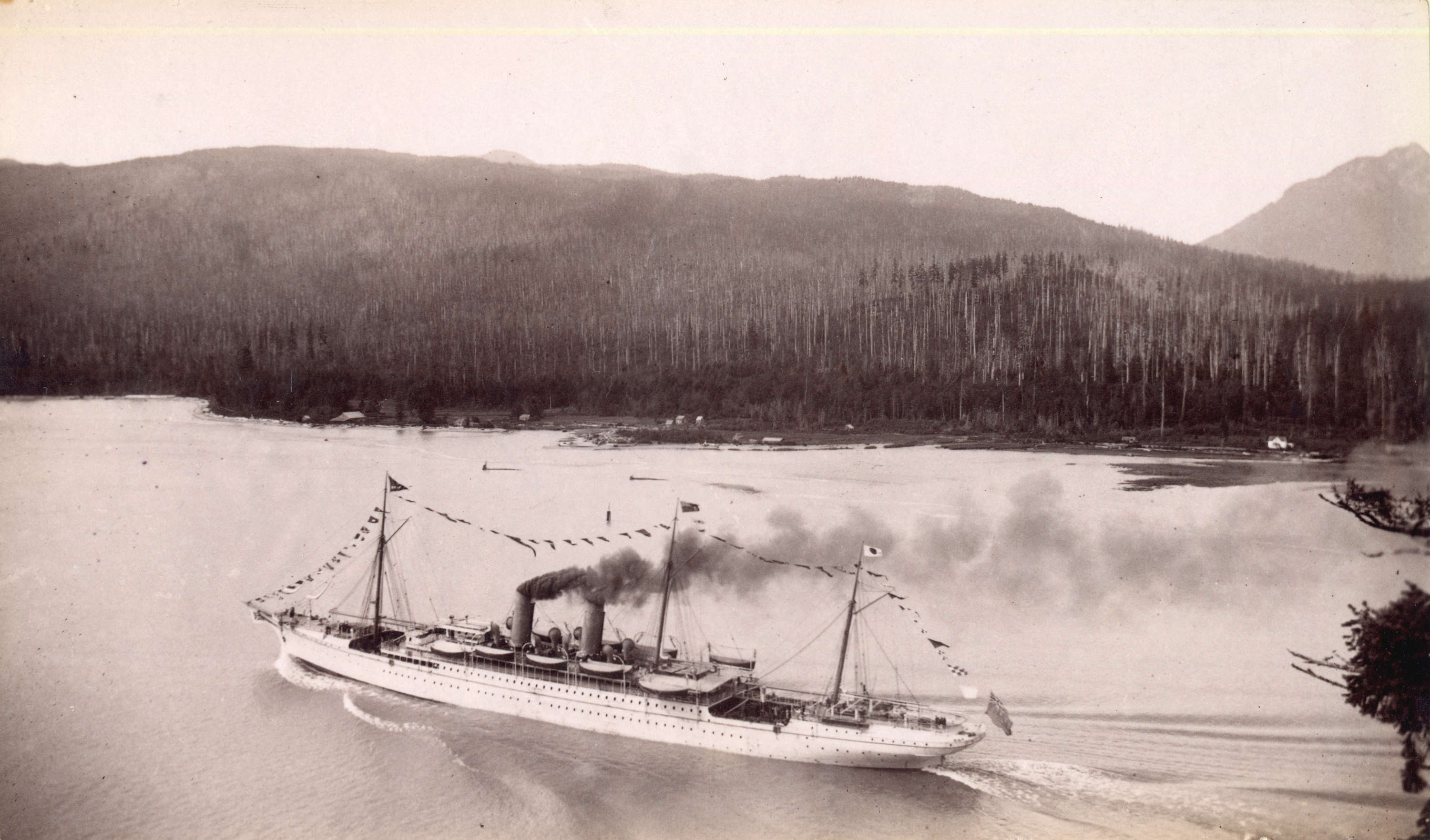 C.P.R. S.S. "Empress of Japan" passing through First Narrows, Vancouver harbour.